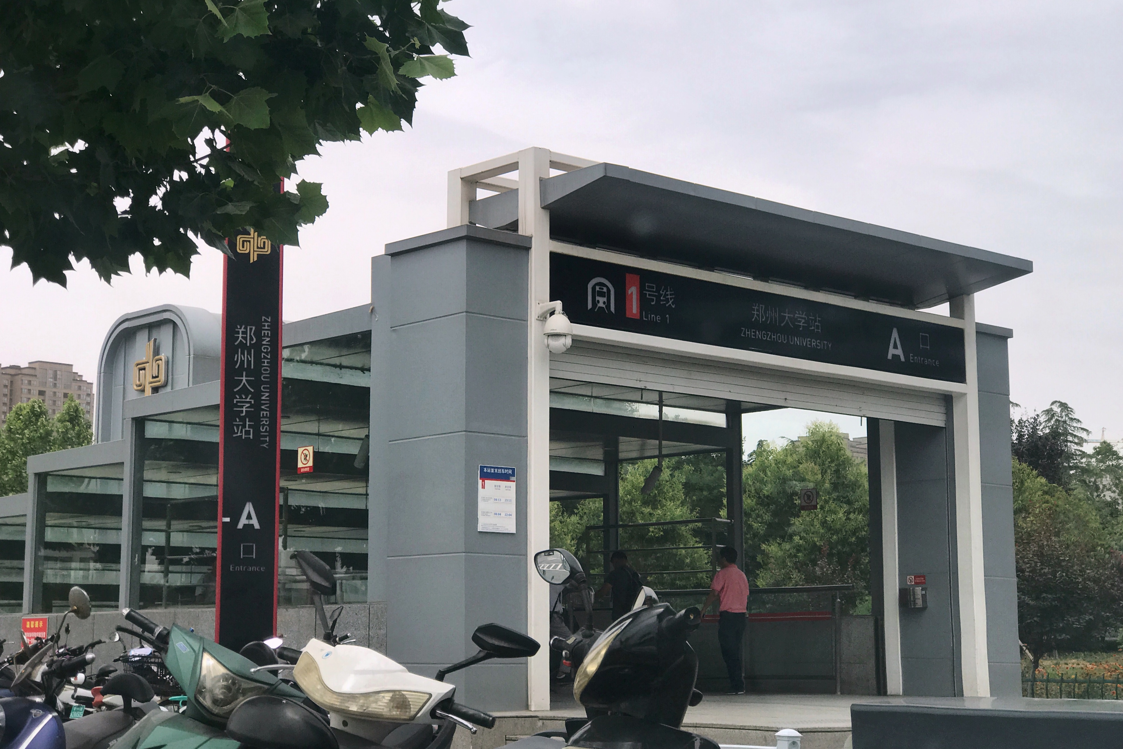 Exit A of Zhengzhou University Station